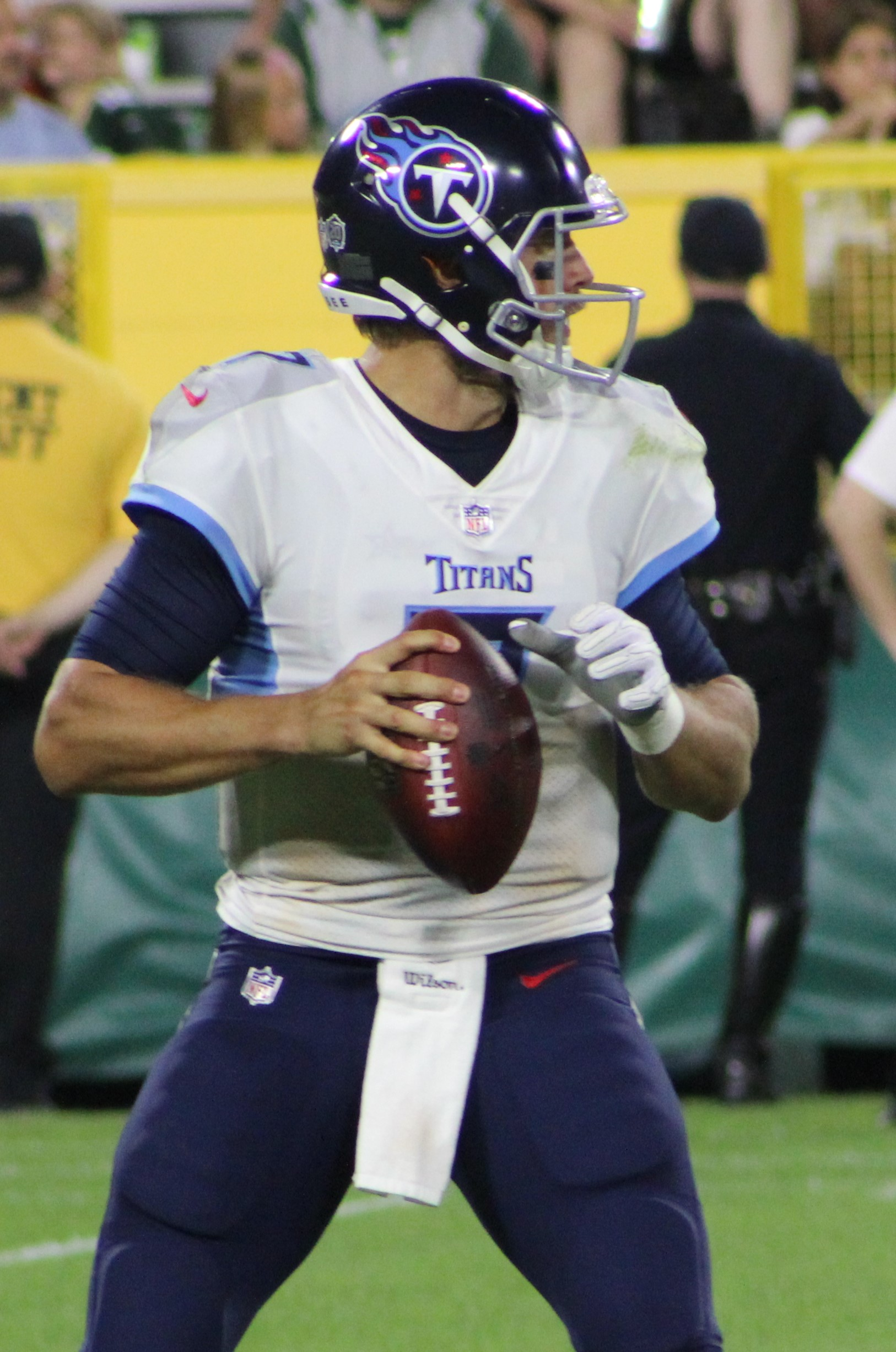 Blaine Gabbert, Tennessee Titans at Green Bay Packers (Preseason), August 9, 2018